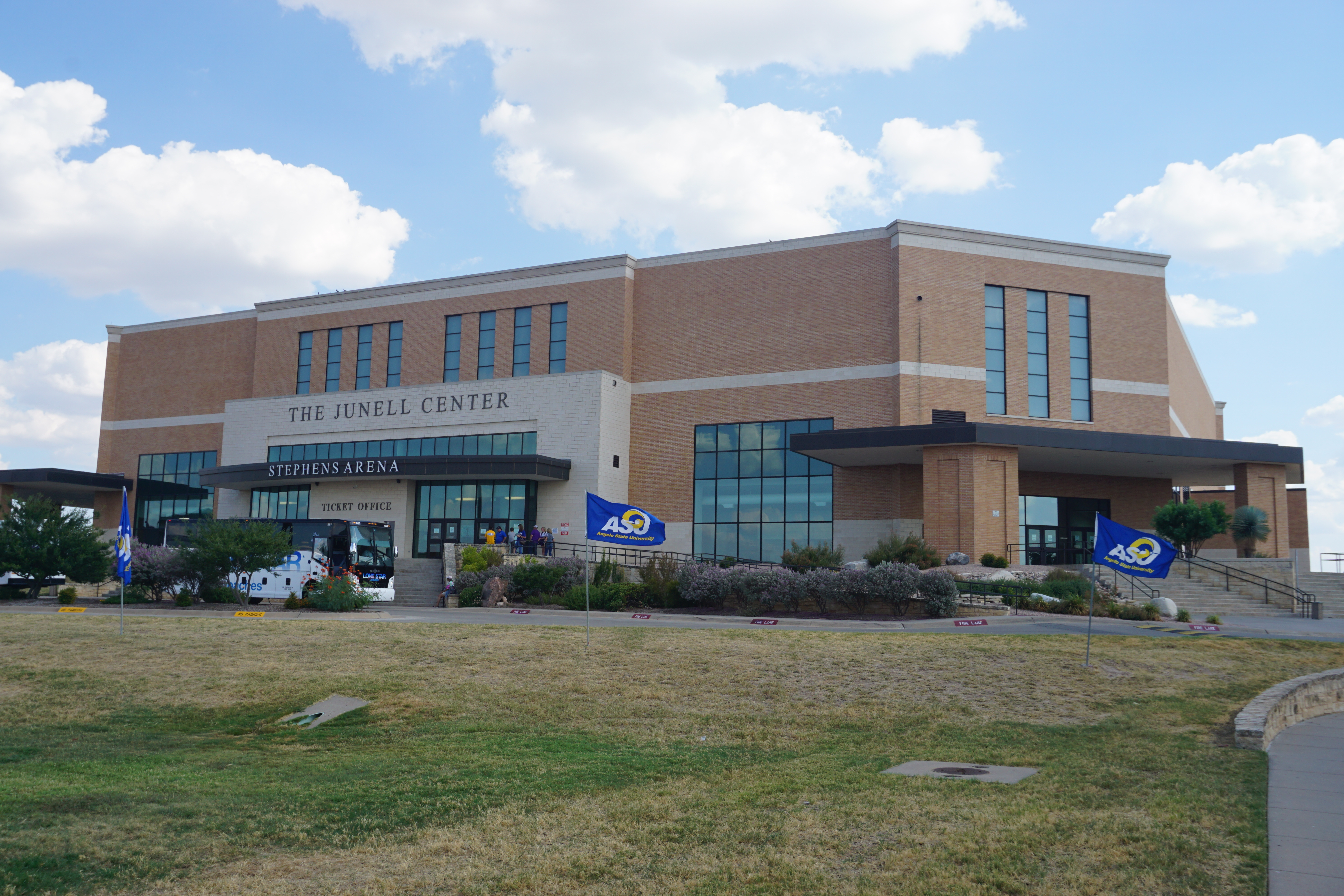 The Junell Center/Stephens Arena on the campus of Angelo State University in San Angelo, Texas (United States).